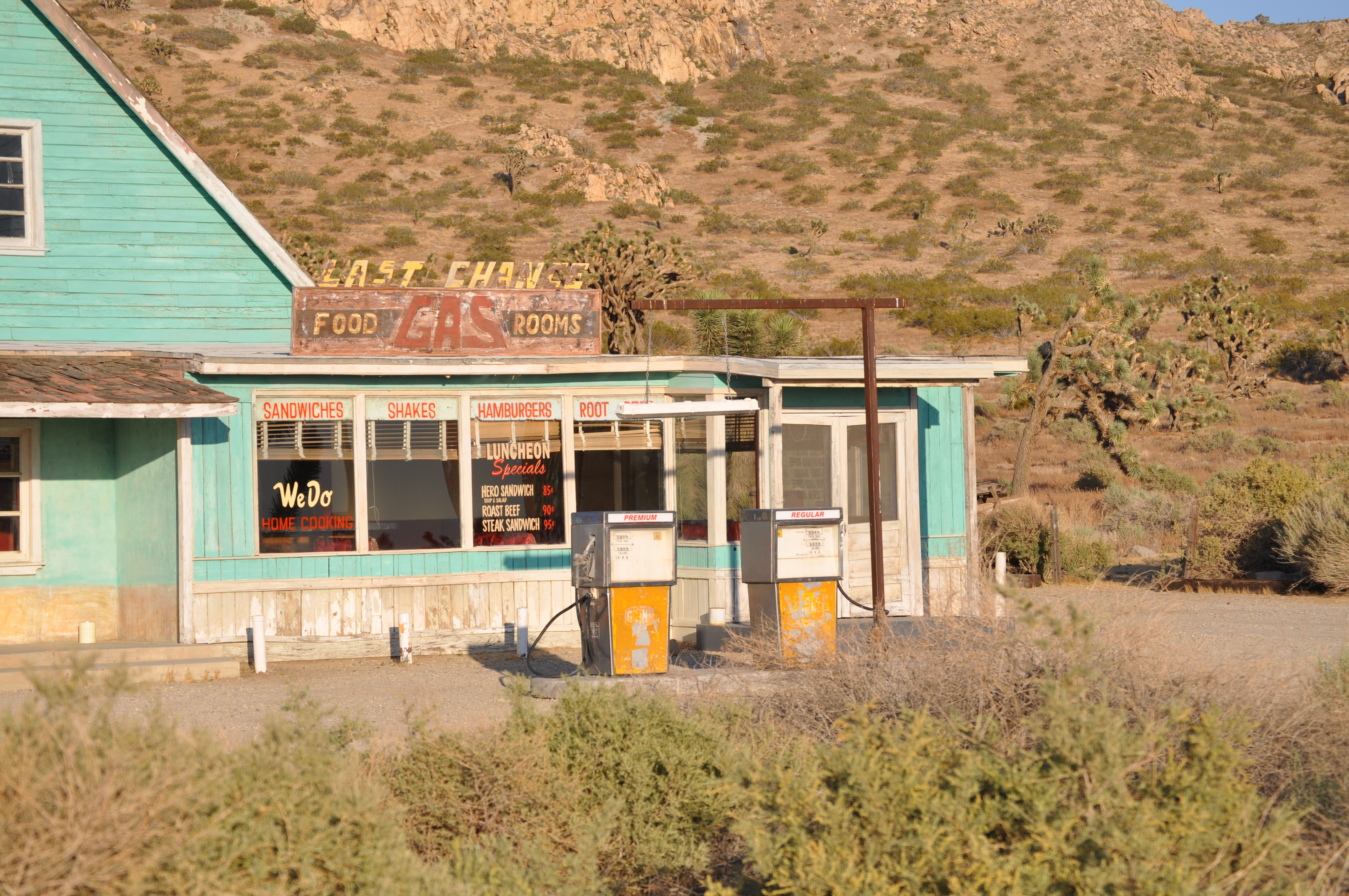 "Club Ed" was built from scratch for a Dennis Hopper film (Eye of the Storm) in 1990. Instead of striking the set after filming was completed, the set was bought and has been used as a desert location and production services center ever since. Because of Club Ed, 150th Street is said to be the most-filmed desert road, and appears in numerous television commercials.